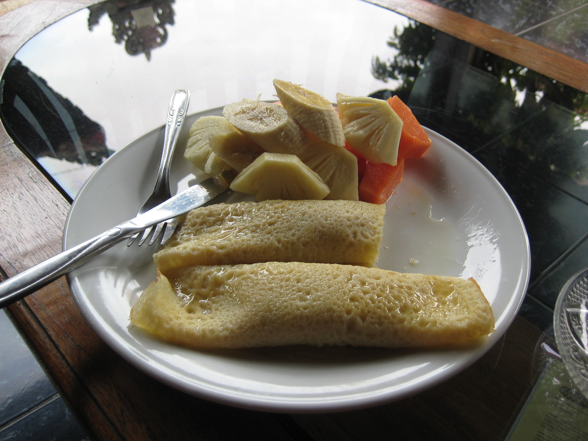 Bali breakfast: bananapancakes with sirup and fruit